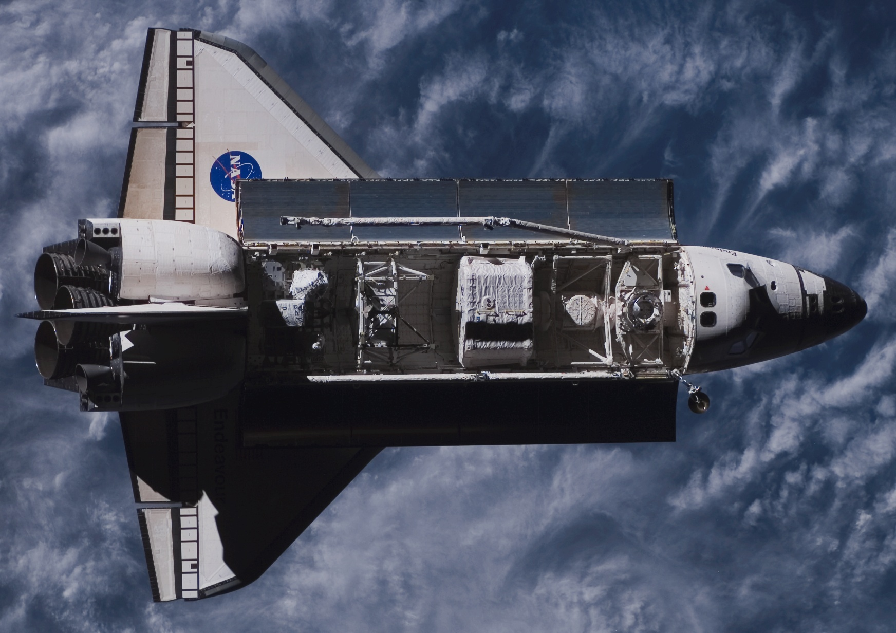 ISS015-E-21740 (10 Aug. 2007) --- This view of the Space Shuttle Endeavour clearly shows its payload bay and upper surfaces. The image was photographed by one of the Expedition 15 crewmembers aboard the International Space Station shortly before the two vehicles docked in Earth orbit. US NASA.